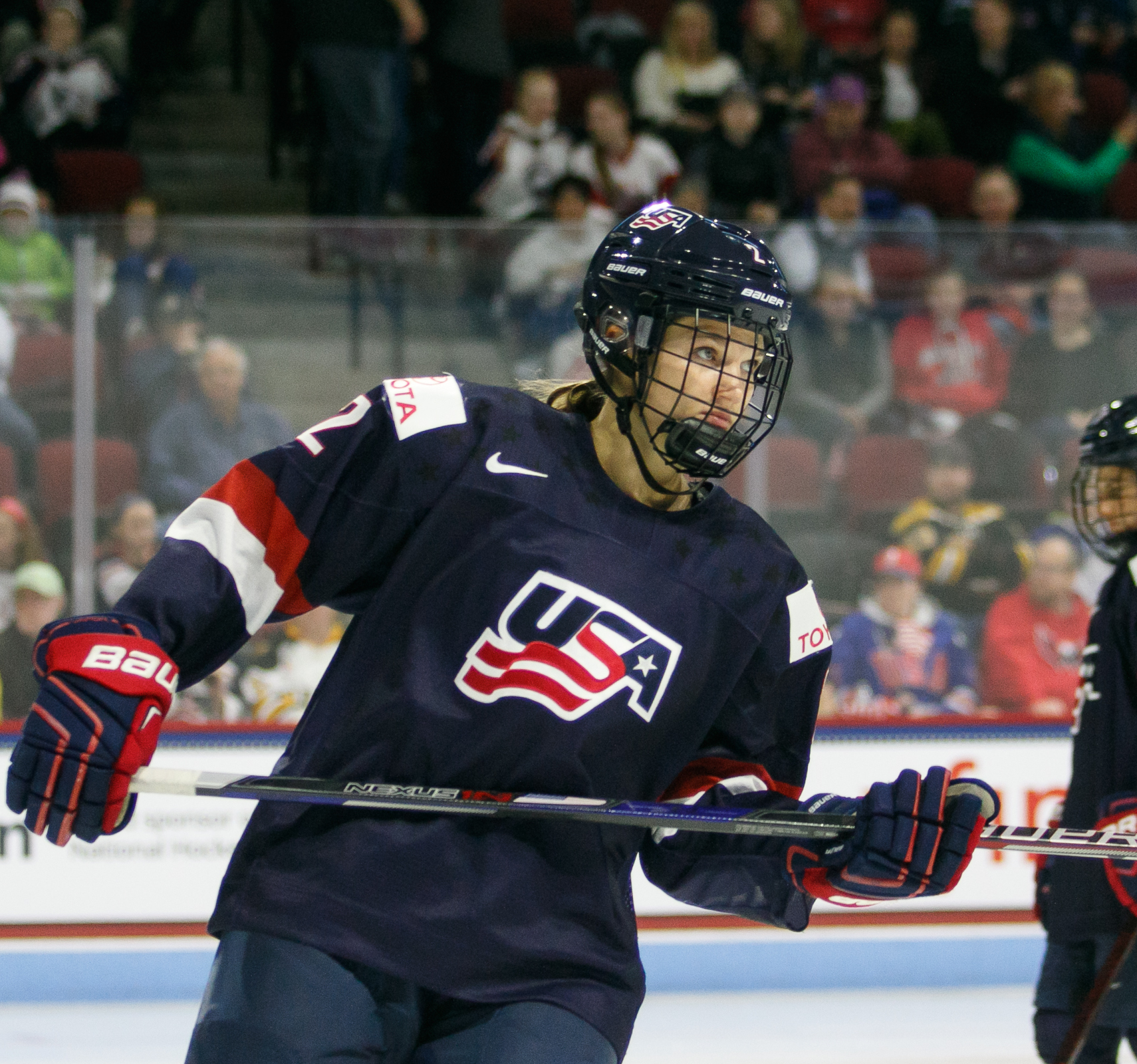 Team USA defender Lee Stecklein (2)